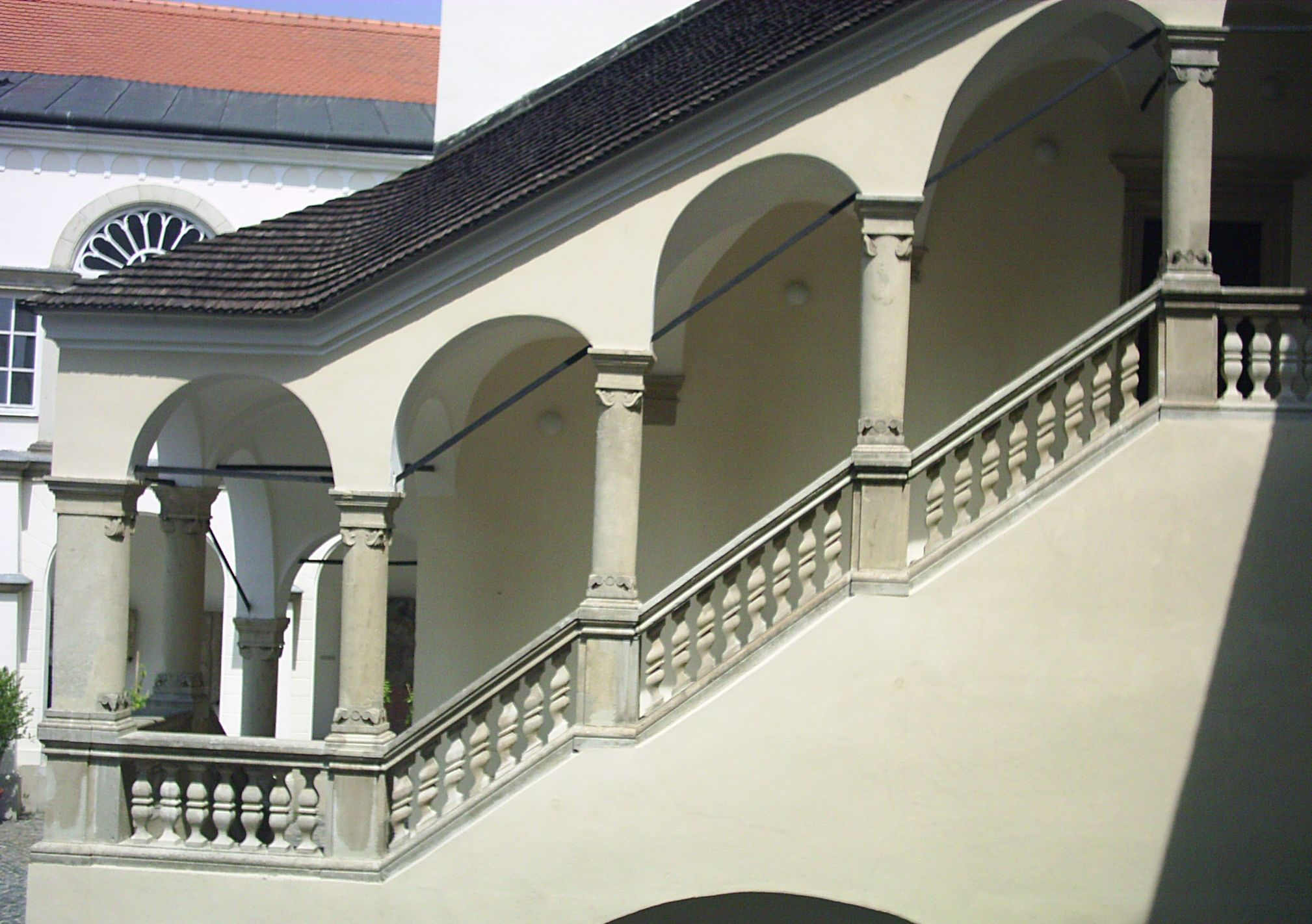 Loggia of the Sárospatak Castle. It's the most beautiful renaissance building of historical Hungary.